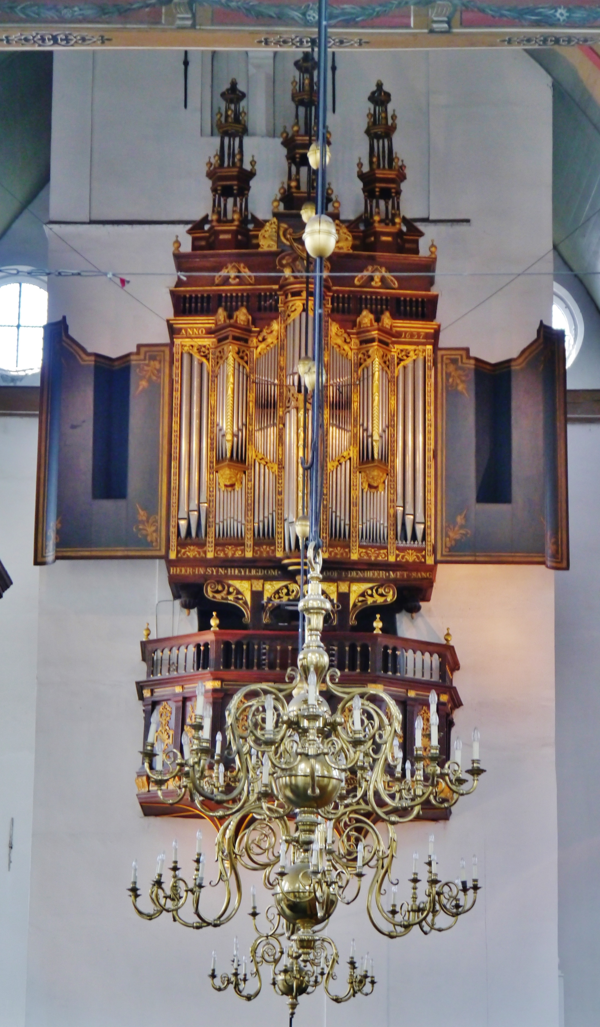 Organ of the Hoogland Church, Leiden, Province of South Holland, Netherlands